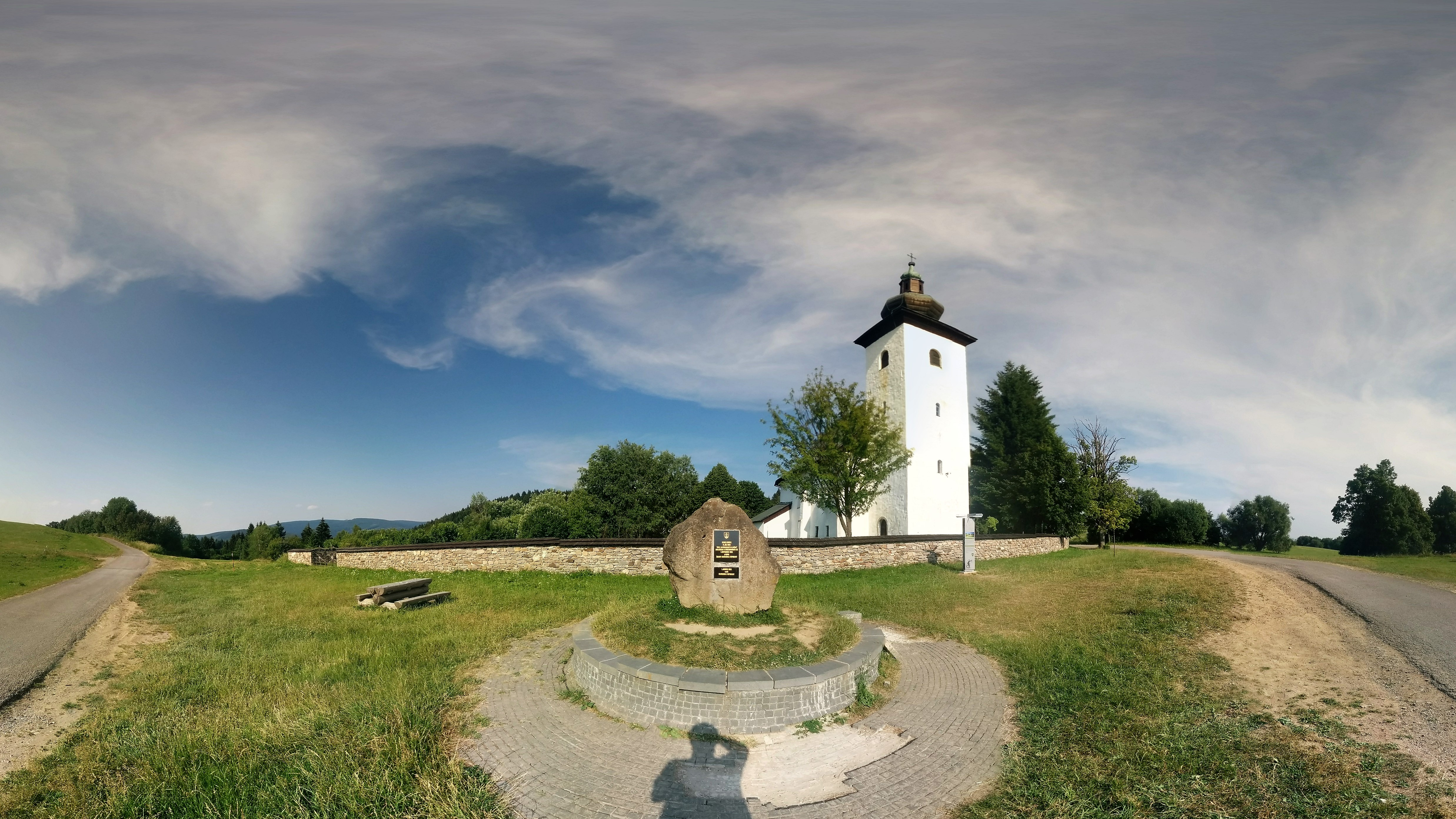 The Center of Europe, Kremnické Bane, Slovakia